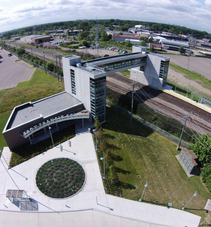 Aerial Transit center